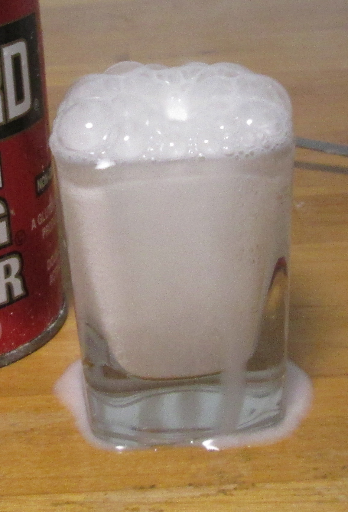 Baking powder, foaming when placed in hot water. This is proof that the powder is still effective.